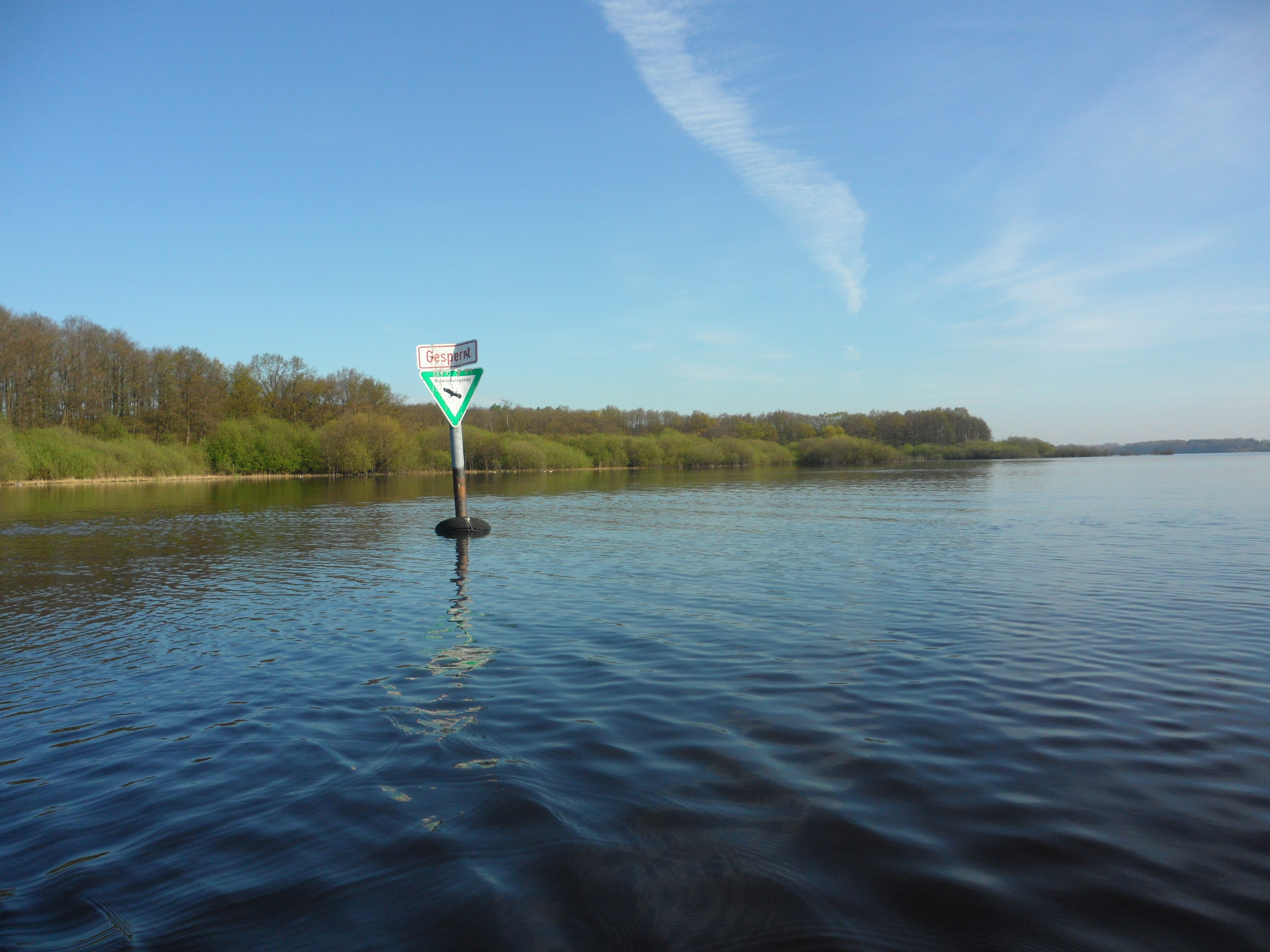 The Nature reserve "Westufer Einfelder See" is marked by signs on the lake